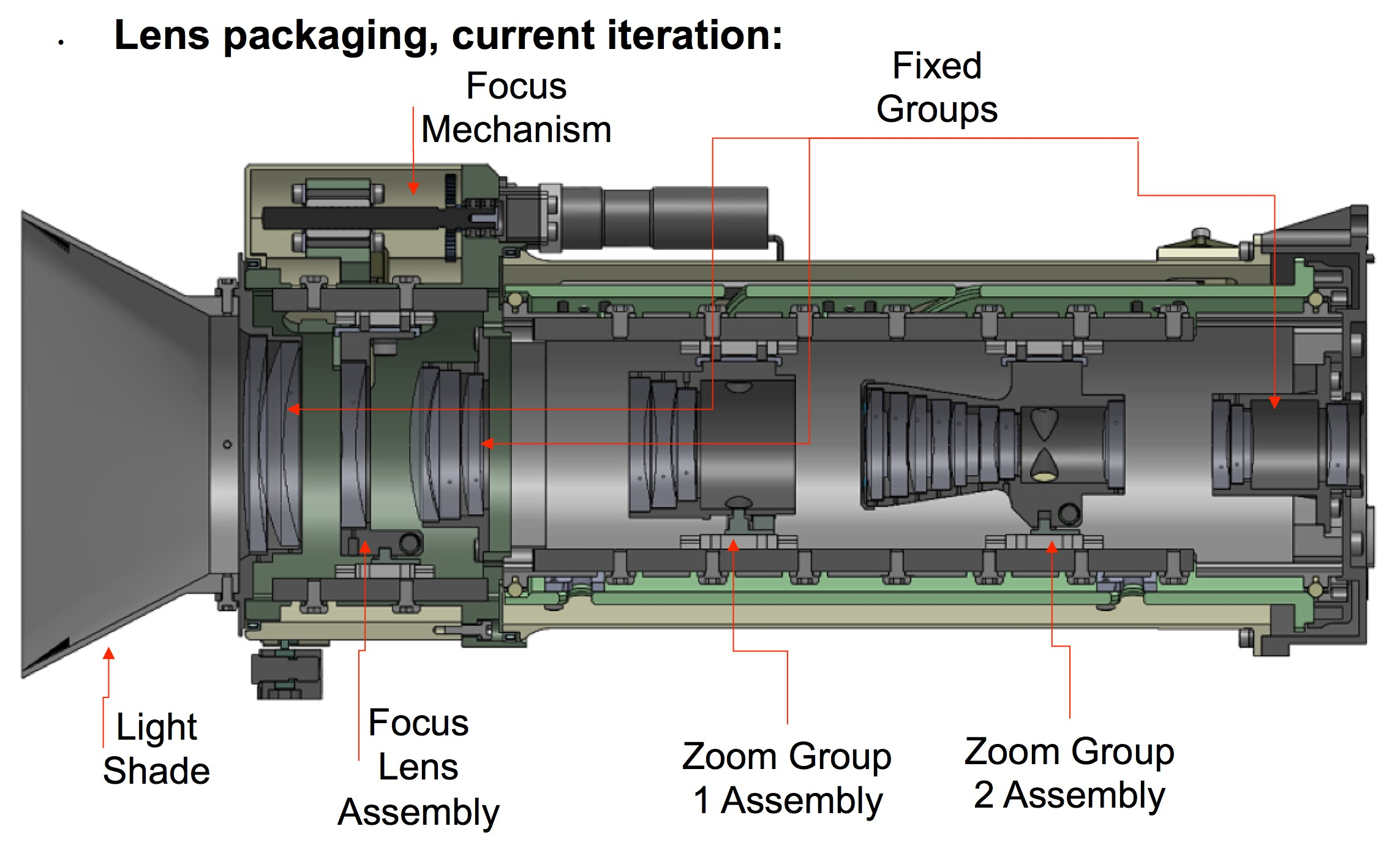 Mastcam-Z lens package